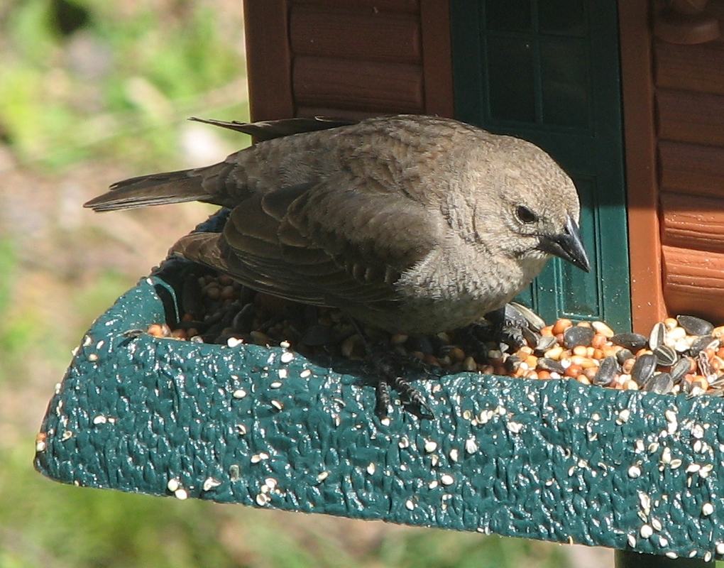 Molothrus ater female